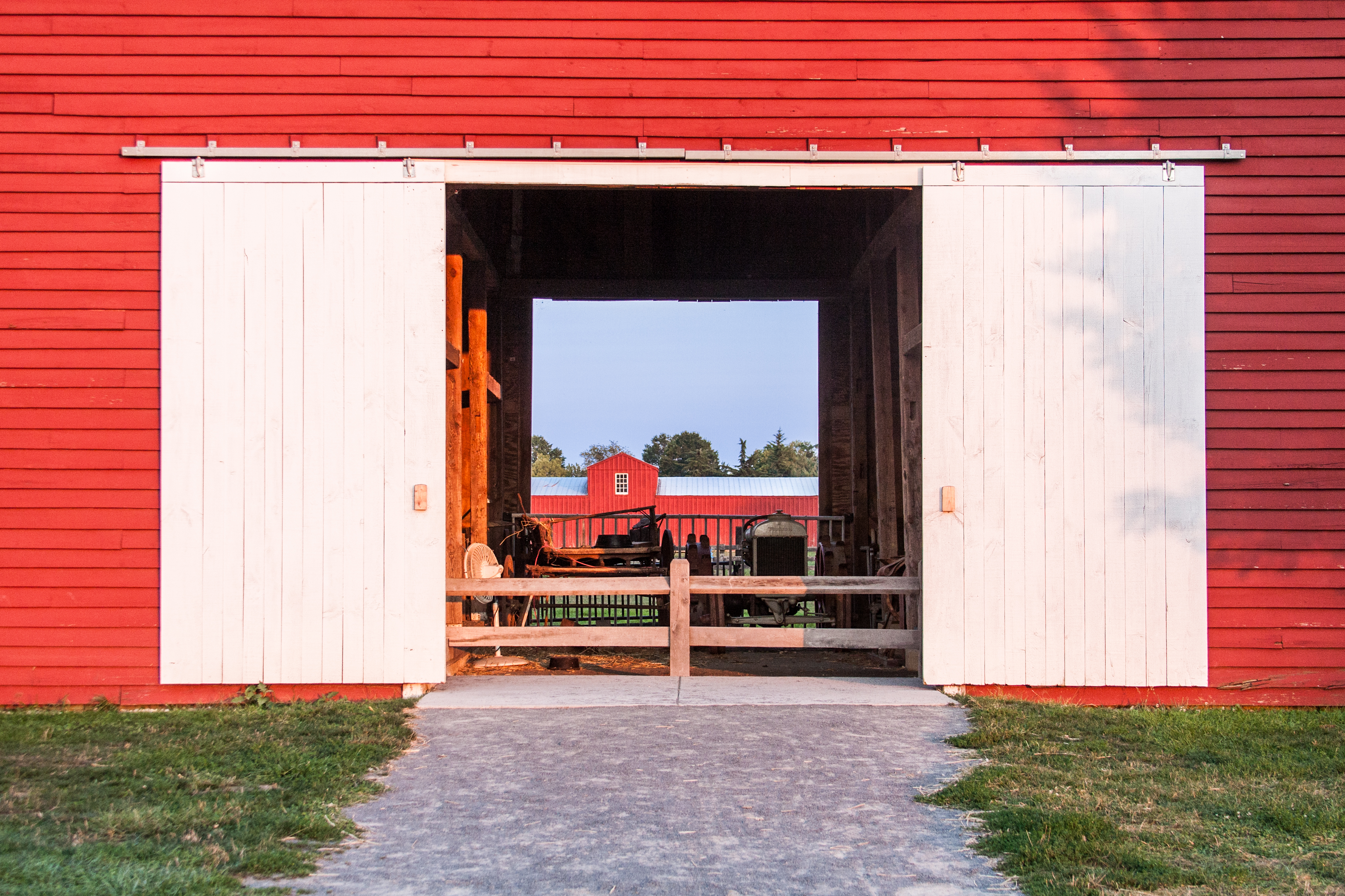 Floris Historic District Looking through large door of a barn to other farm buildings in the background, Kidwell Farm at Frying Pan Farm Park, Floris, VA